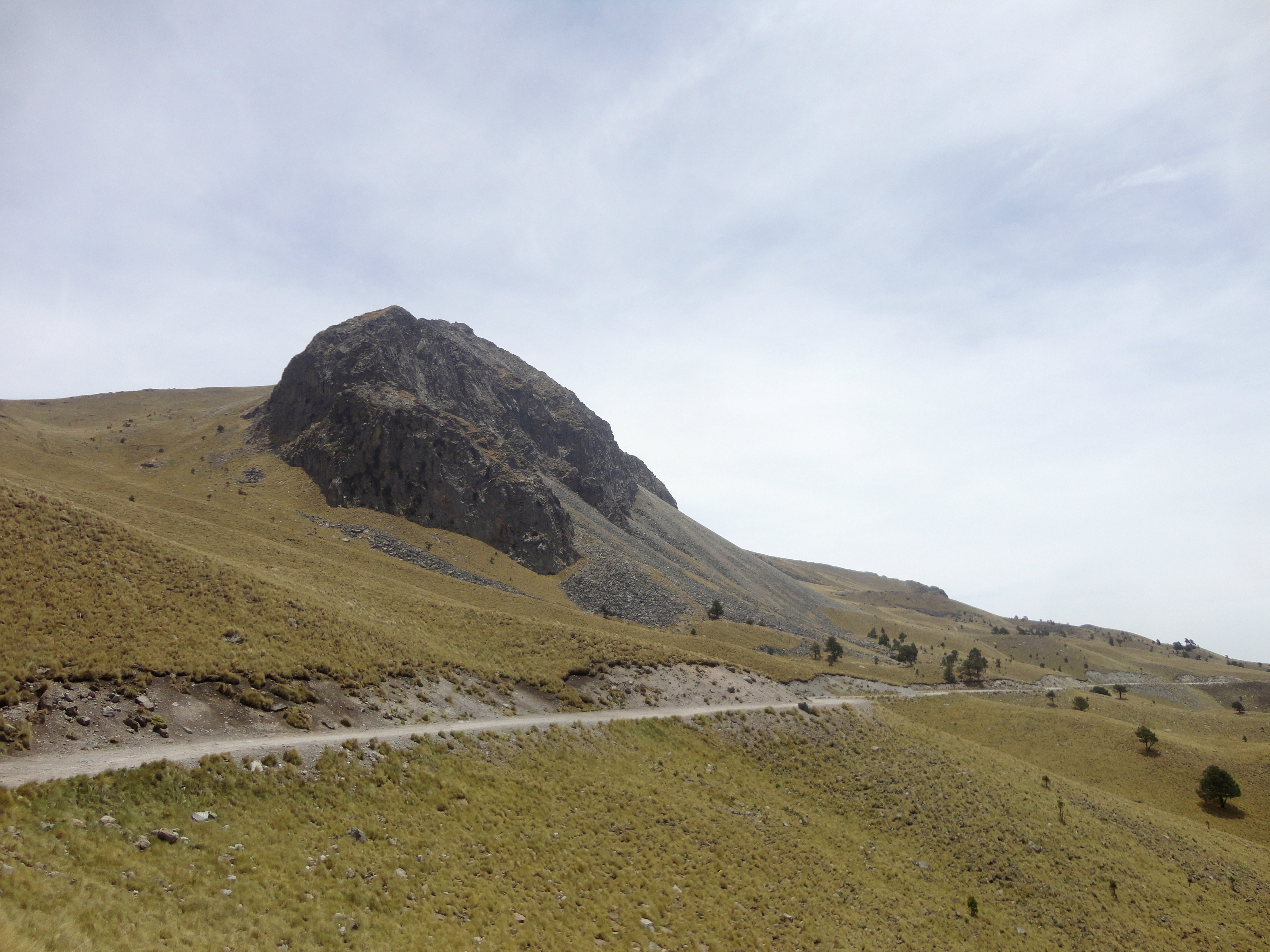 Área de zacatonal - Nevado de Toluca, Edomex, México.